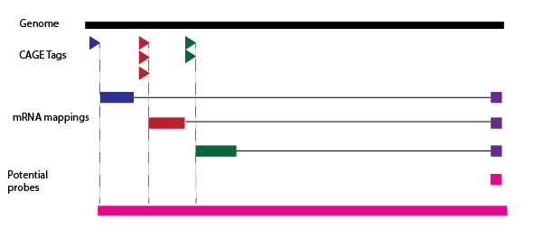 CAGE profiling of promoter sites. CAGE tags can be sequenced, and aligned to the genome so that transcriptional activity and abundance levels can be measured. CAGE tags are beneficial because they can profile TSSs that are often missed by other microarray probes. Modified from "Basic CAGE technology" ( by FANTOM ( by RIKEN ( which is licensed under CC BY 4.0 (" A derivative from the original work.